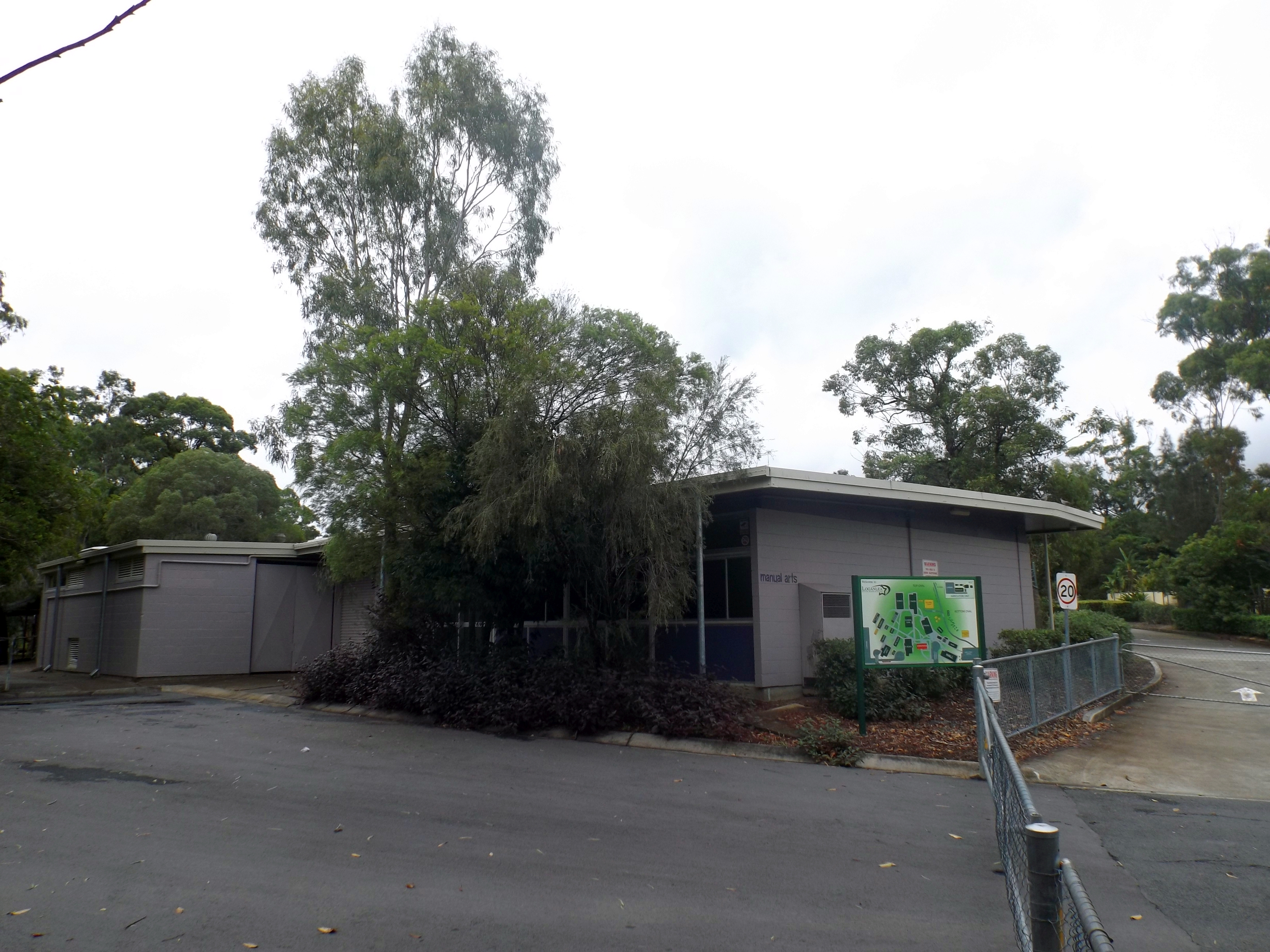 Photo of Loganlea State High School Manual Arts building in Loganlea, Logan City, Queensland, Australia.